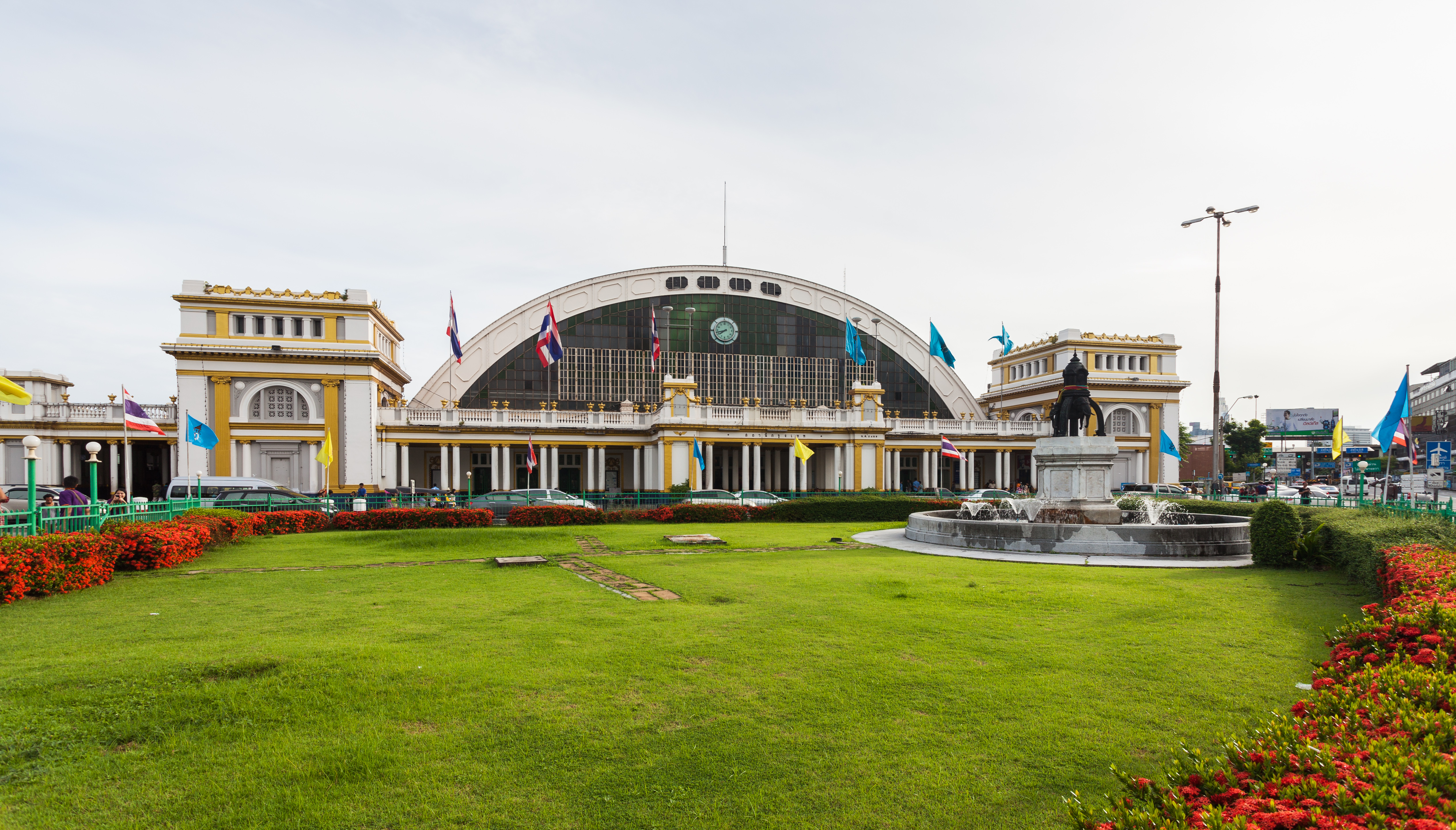 Hua Lamphong Railway Station, Bangkok, Thailand